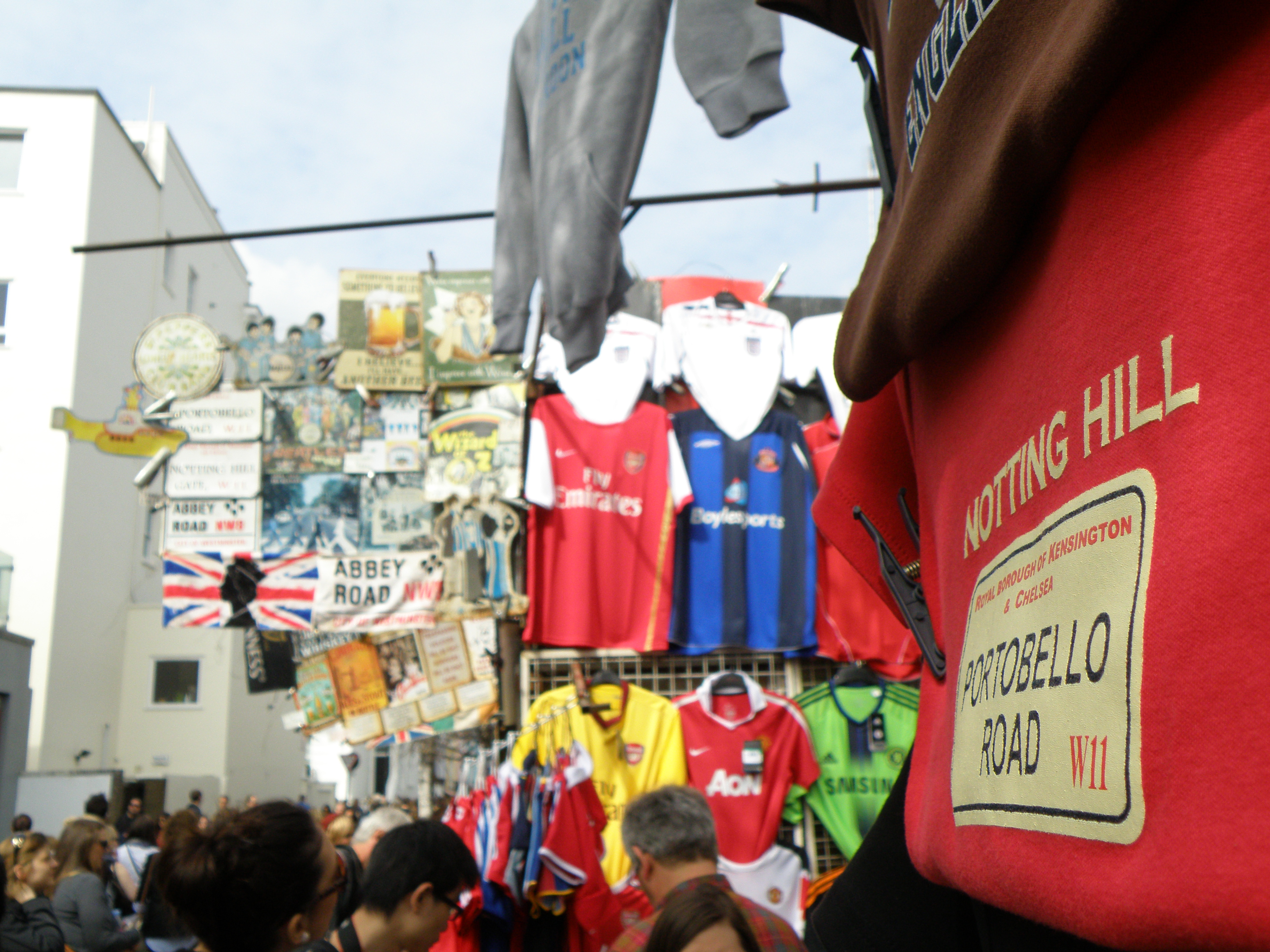 Portobello market seen by a t-shirt, London, UK.